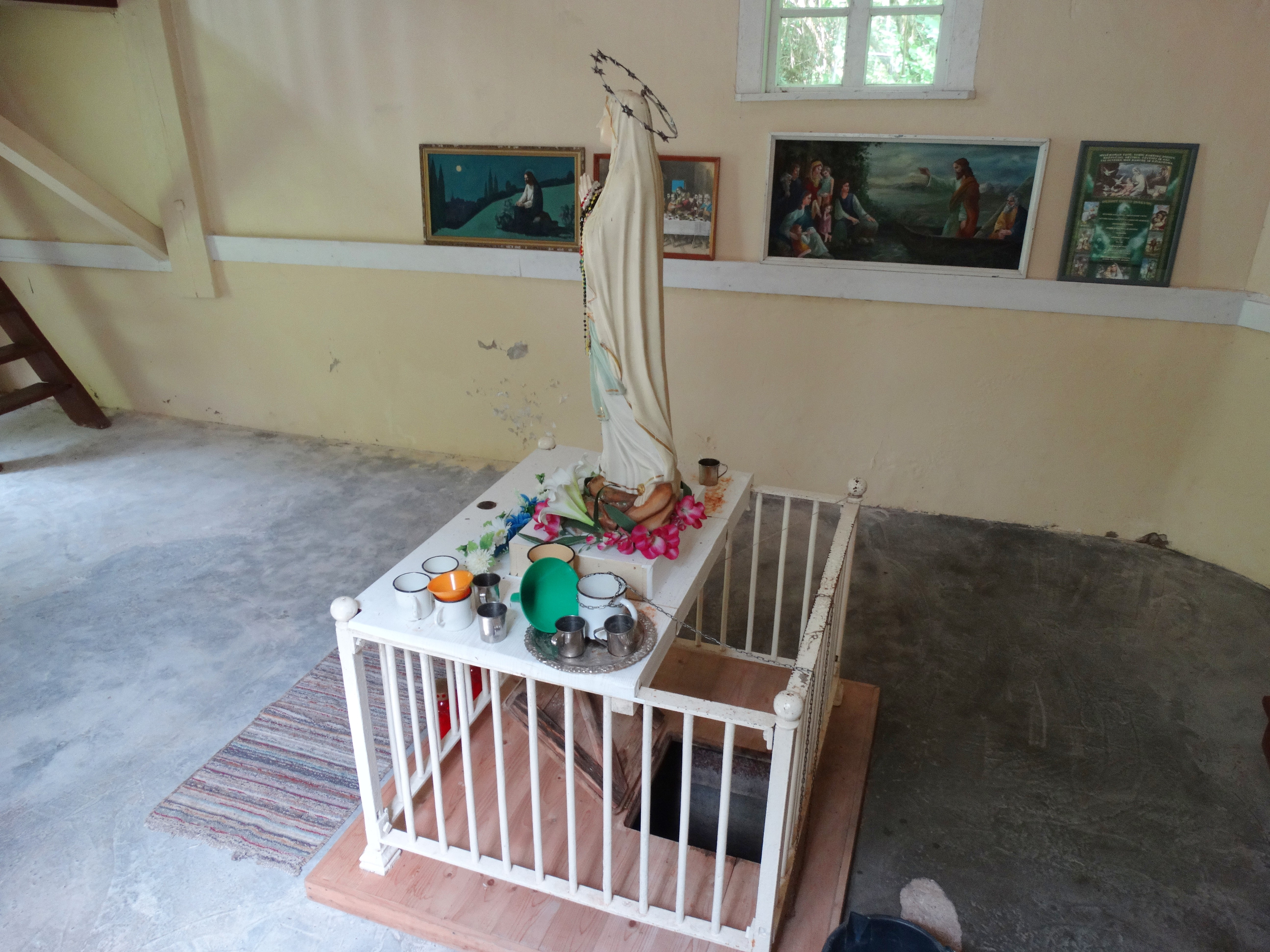 Chapel in Ugioniai, Raseiniai District, Lithuania